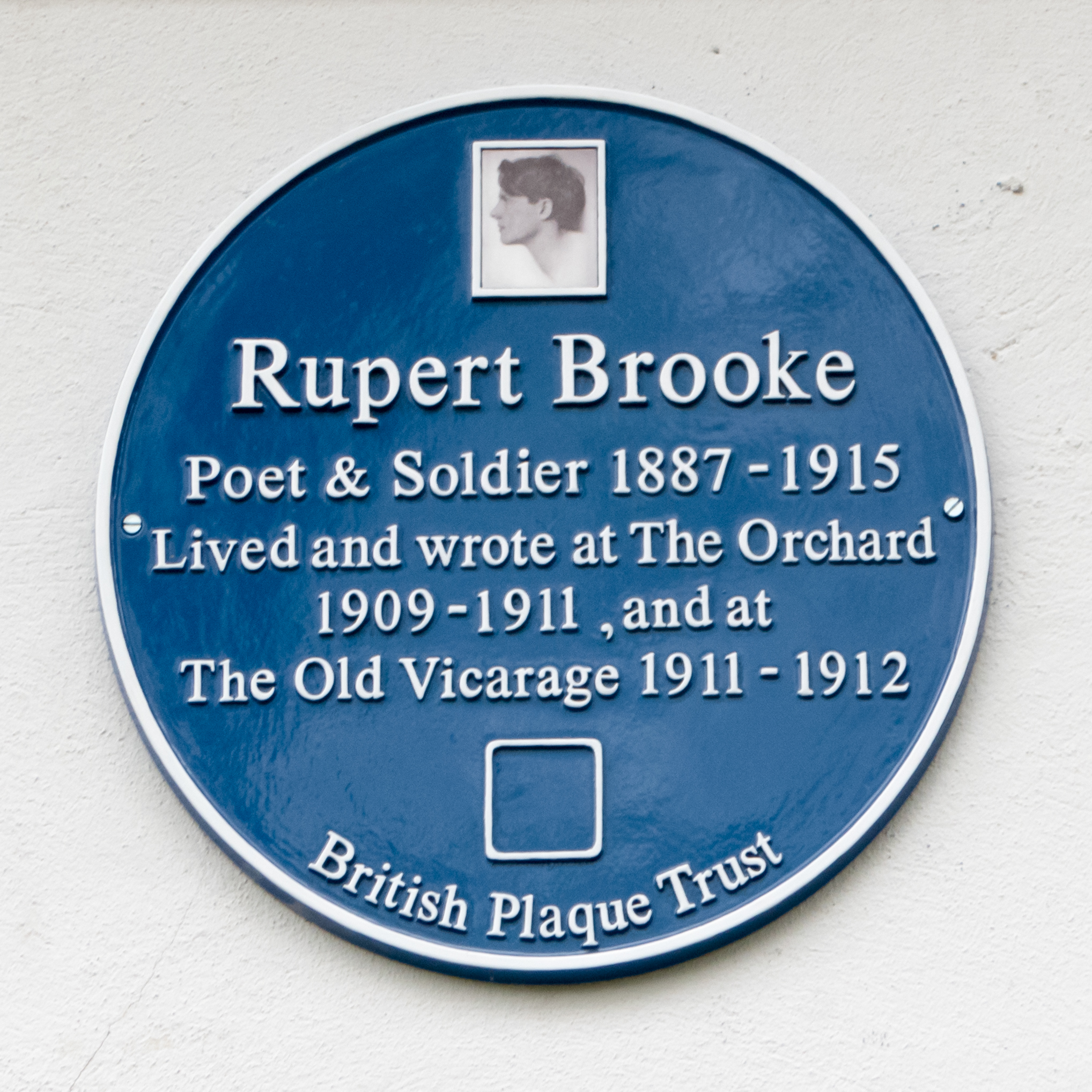 Blue plaque commemorating poet Rupert Brooke at Orchard House, Grantchester, Cambridgeshire.